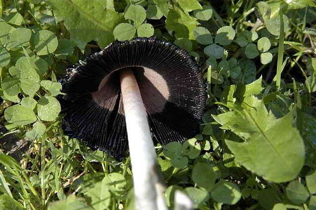 Coprinus comatus from Commanster, Belgium. The determination of the species shown in this picture has been verified.